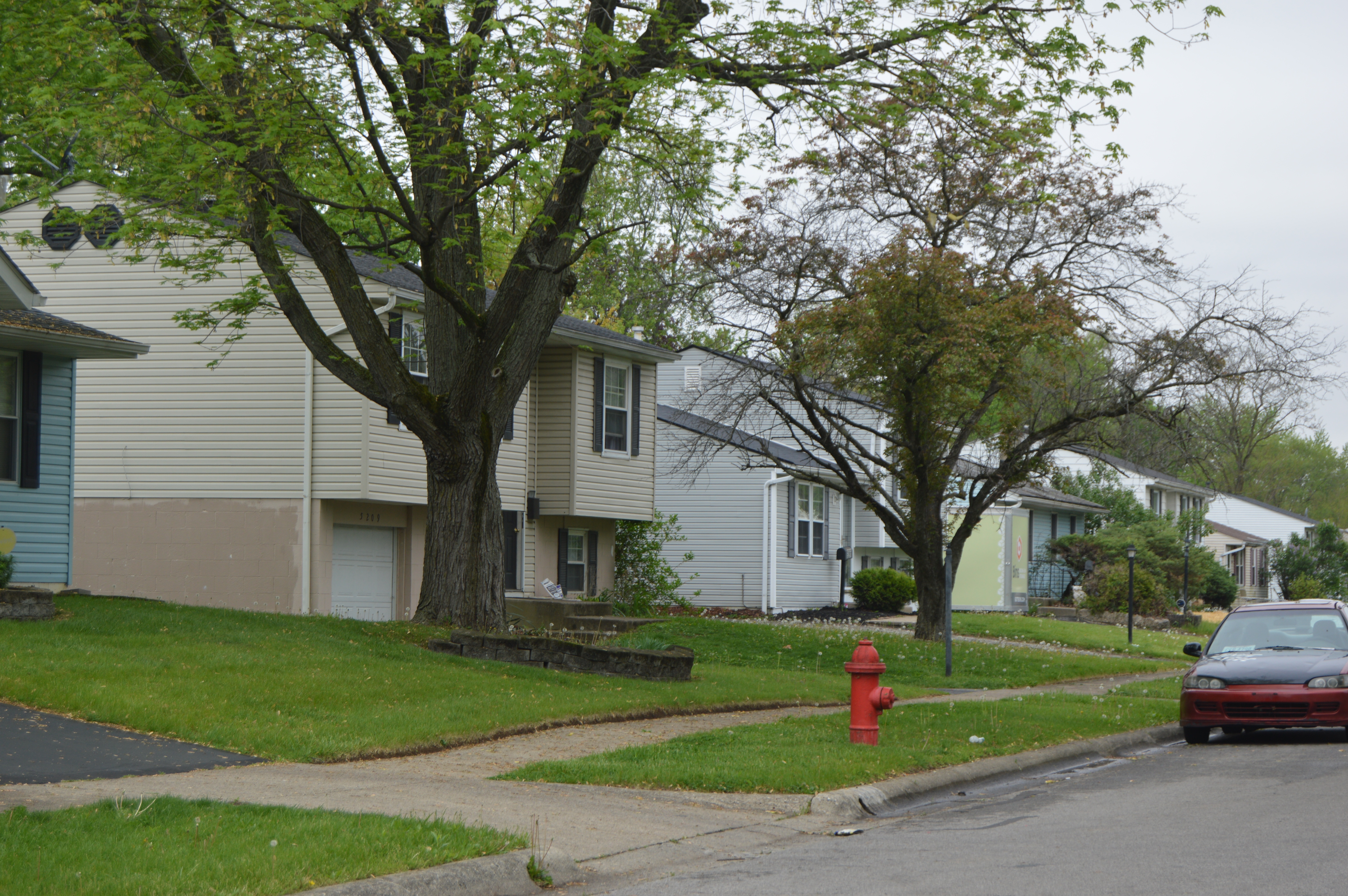 Houses on the southern side of Parkline Drive, west of the Fleet Road intersection, in Truro Township, Franklin County, Ohio, United States.